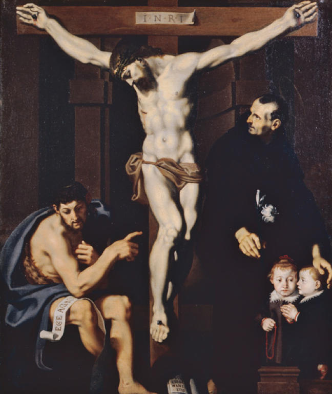 Cruxifiction with John the Baptist, Saint Nicolas of Tolentino and Two Small Figures in Prayer